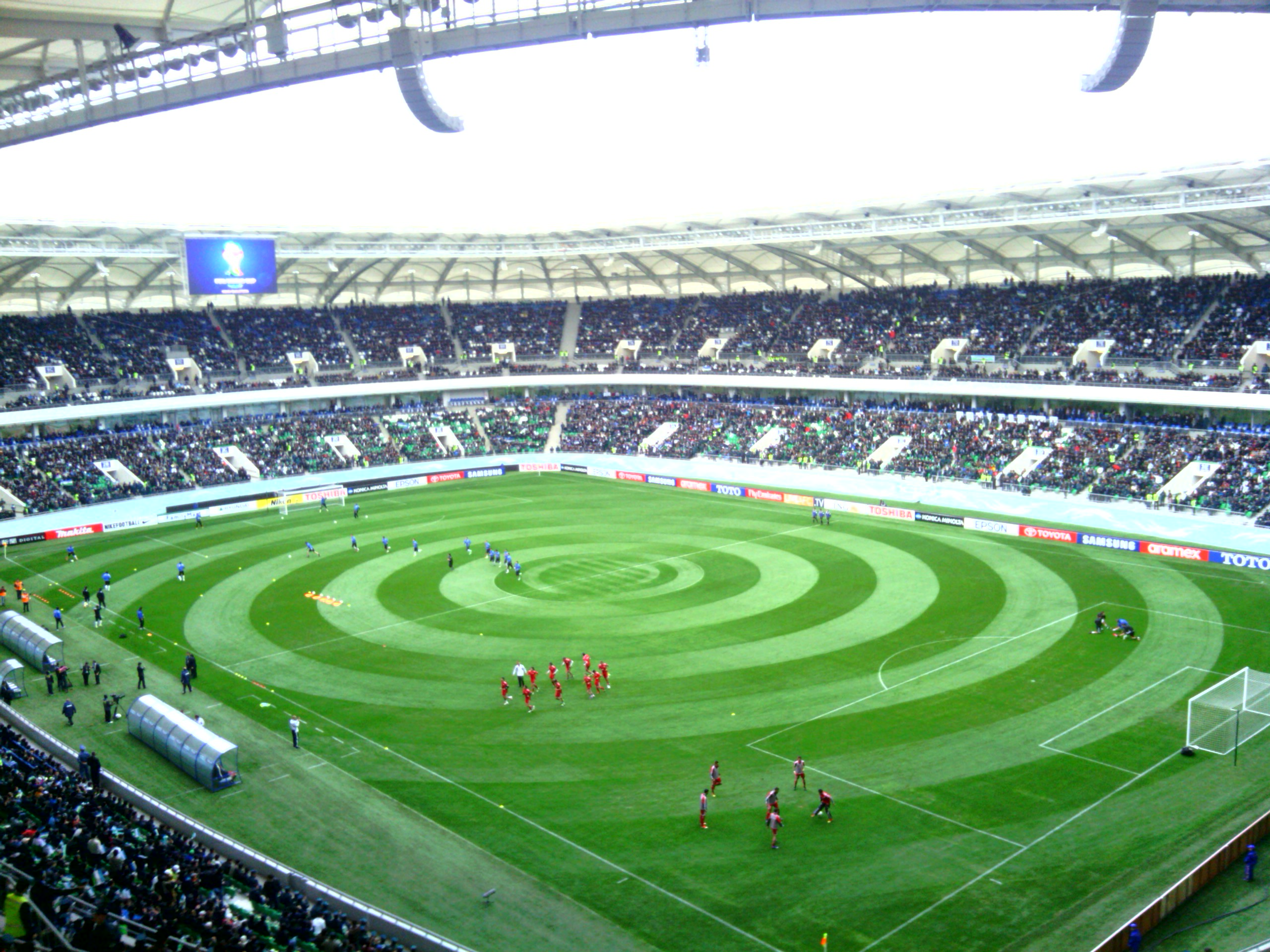 Bunyodkor stadium2